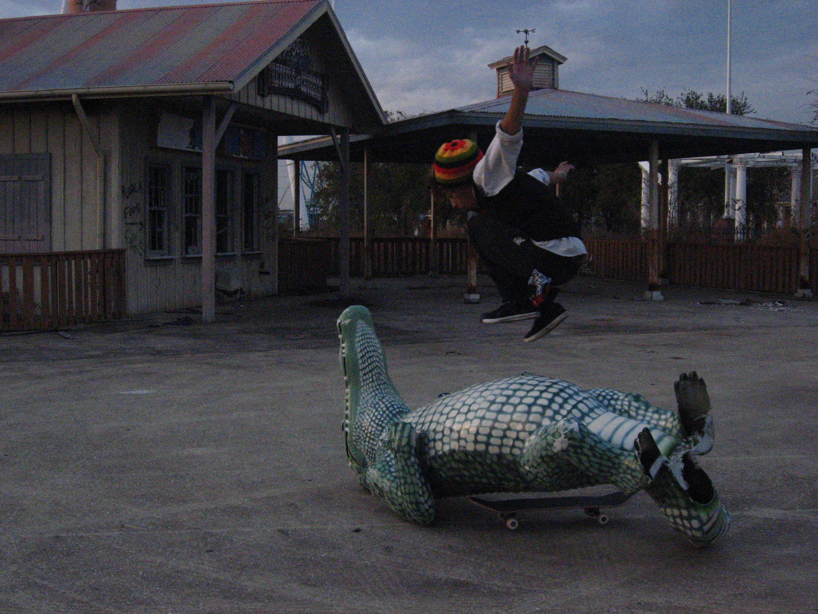 Six Flags New Orleans, abandoned amusement park. Jumping the Gator.